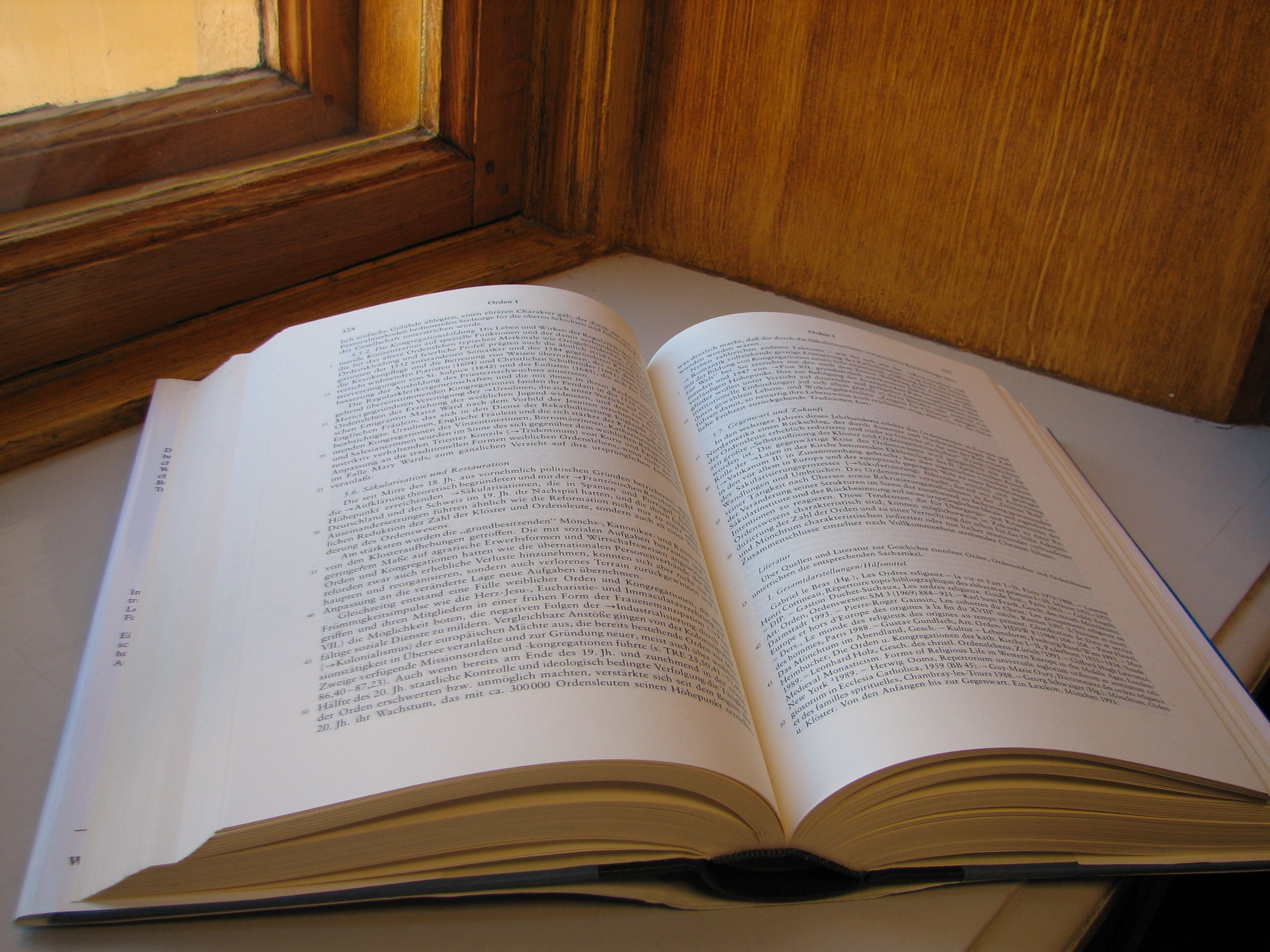 An open volume of Theologische Realenzyklopädie. Gerhard Müller, Horst Balz, Gerhard Krause (eds.) Walter De Gruyter Inc 1977-2004.